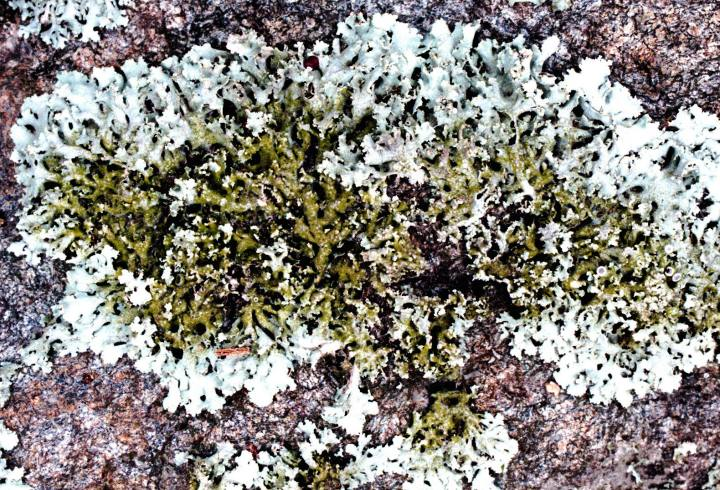 Physcia millegrana Degel., 1942 (photograph of P. millegrana growing on a small boulder at SDNEA) The boulder is located at the Soldiers Delight Natural Environment Area in the woodland next to Red Dog Lodge and the picnic area (Owings Mills, Baltimore County, Maryland, USA) (N 39o24.604' W 76o50.440')